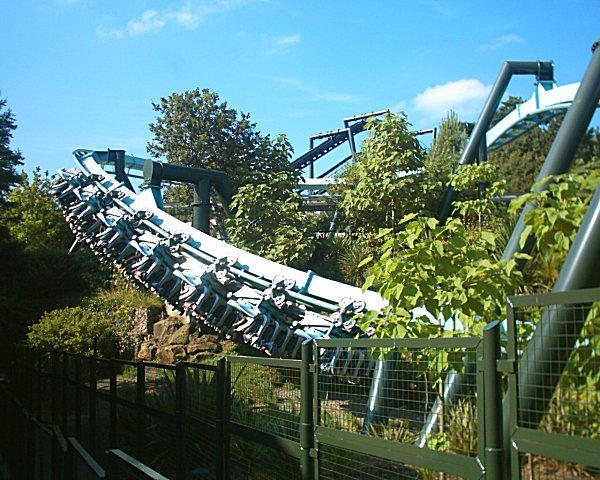 The Air rollercoaster, Alton Towers.